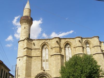 The Cami Haydarpasa mosque in Nicosia, Cyprus - northern (Turkish) part